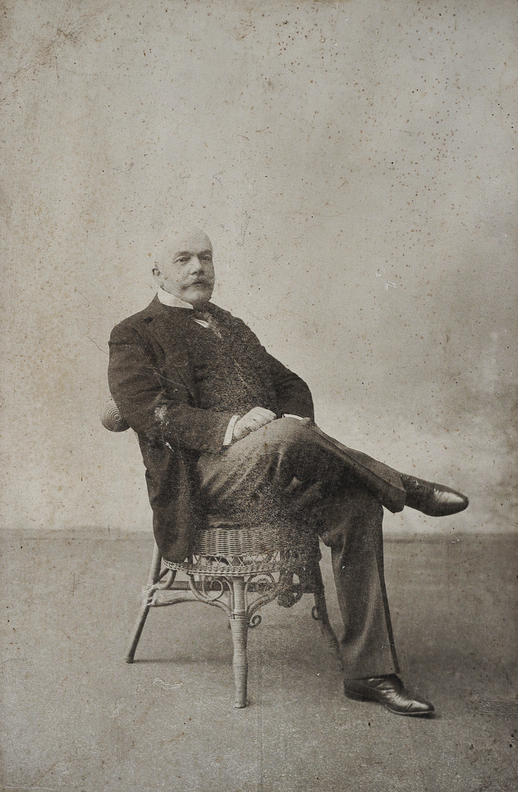 Kazimierz Badeni, Polish count, politician, prime minister of the Austro-Hungarian government.